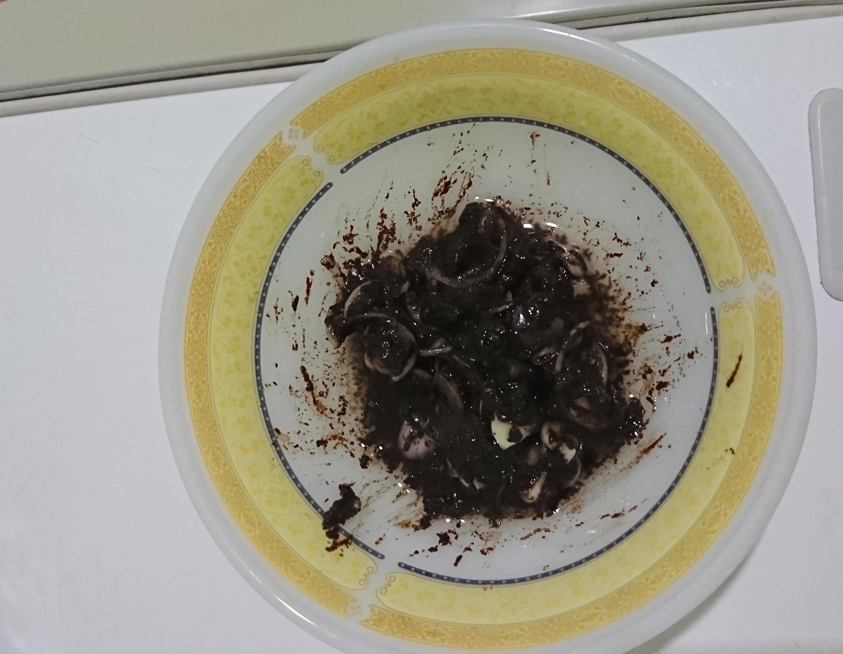 Pon ye gyi (Burmese cuisine) မြန်မာဘာသာ: မြန်မာ့စားသောက်ဖွယ်ရာ ပုန်းရည်ကြီးသုပ်